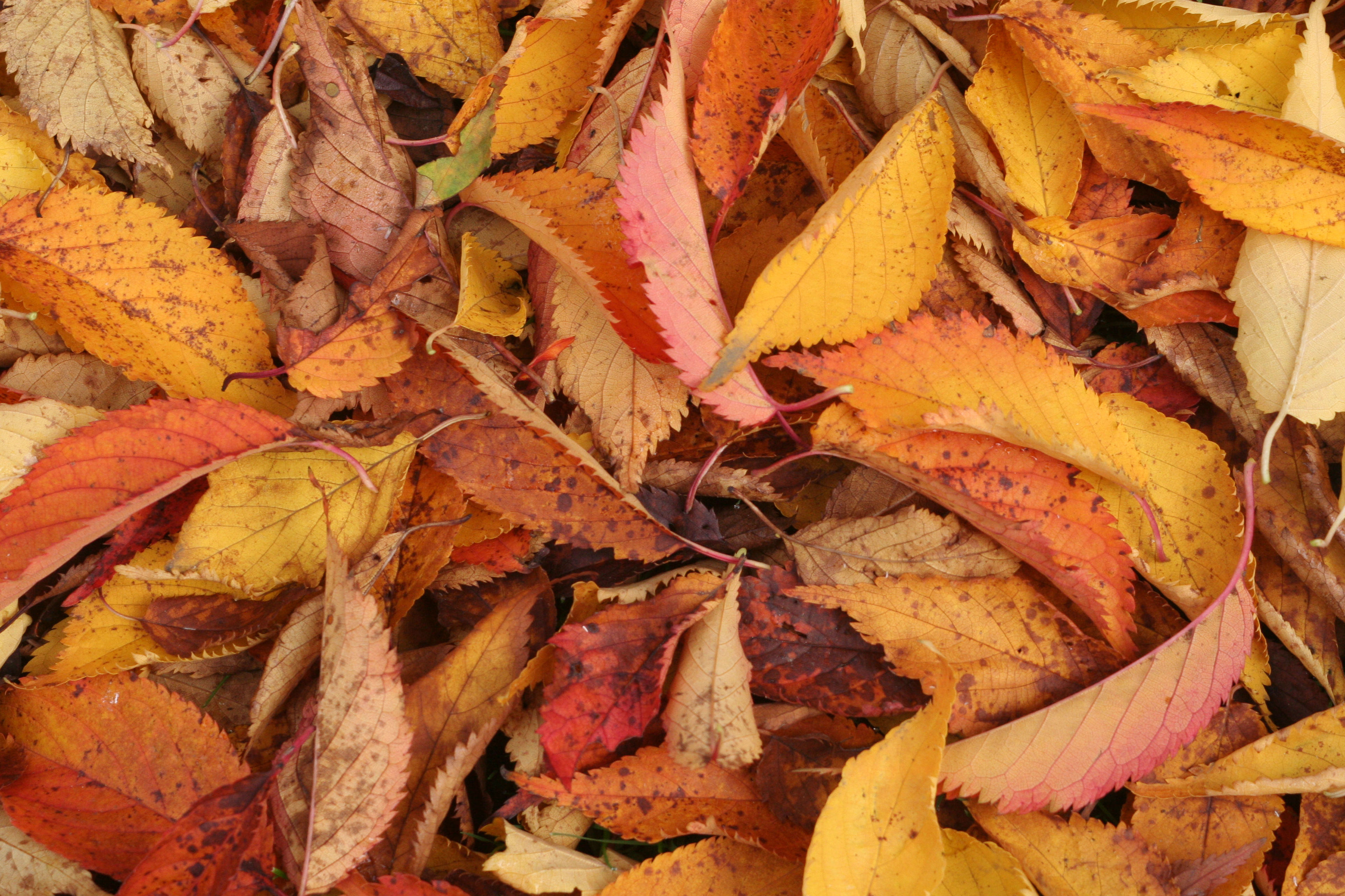 Leaves at Delapre Abbey - by R Neil Marshman (c)